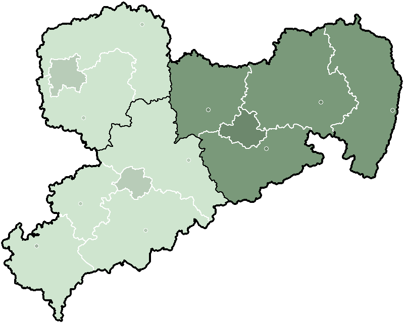 Map of the state Saxony in Germany before 2008, government region Dresden highlighted.